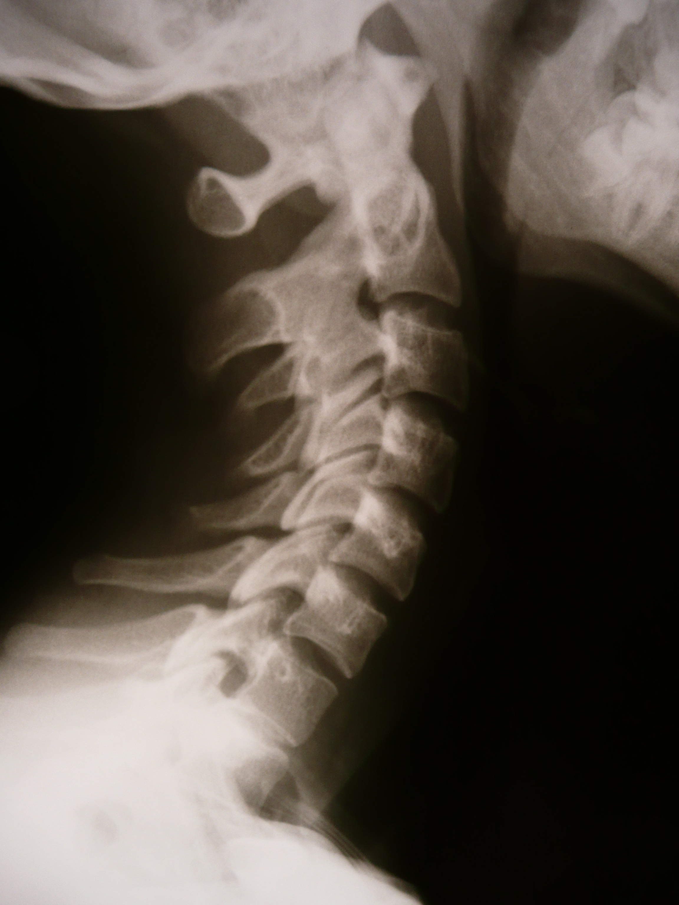 Medical X-rays